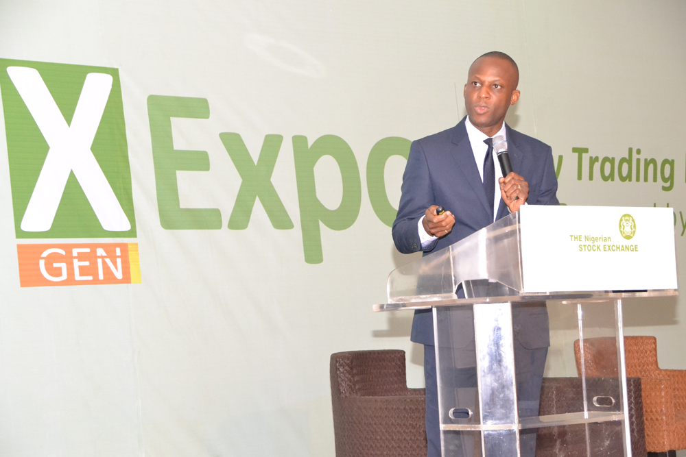 Mr. Ade Bajomo, Executive Director of The Nigerian Stock Exchange for Market Operations and Technology at the X-GEN EXPO